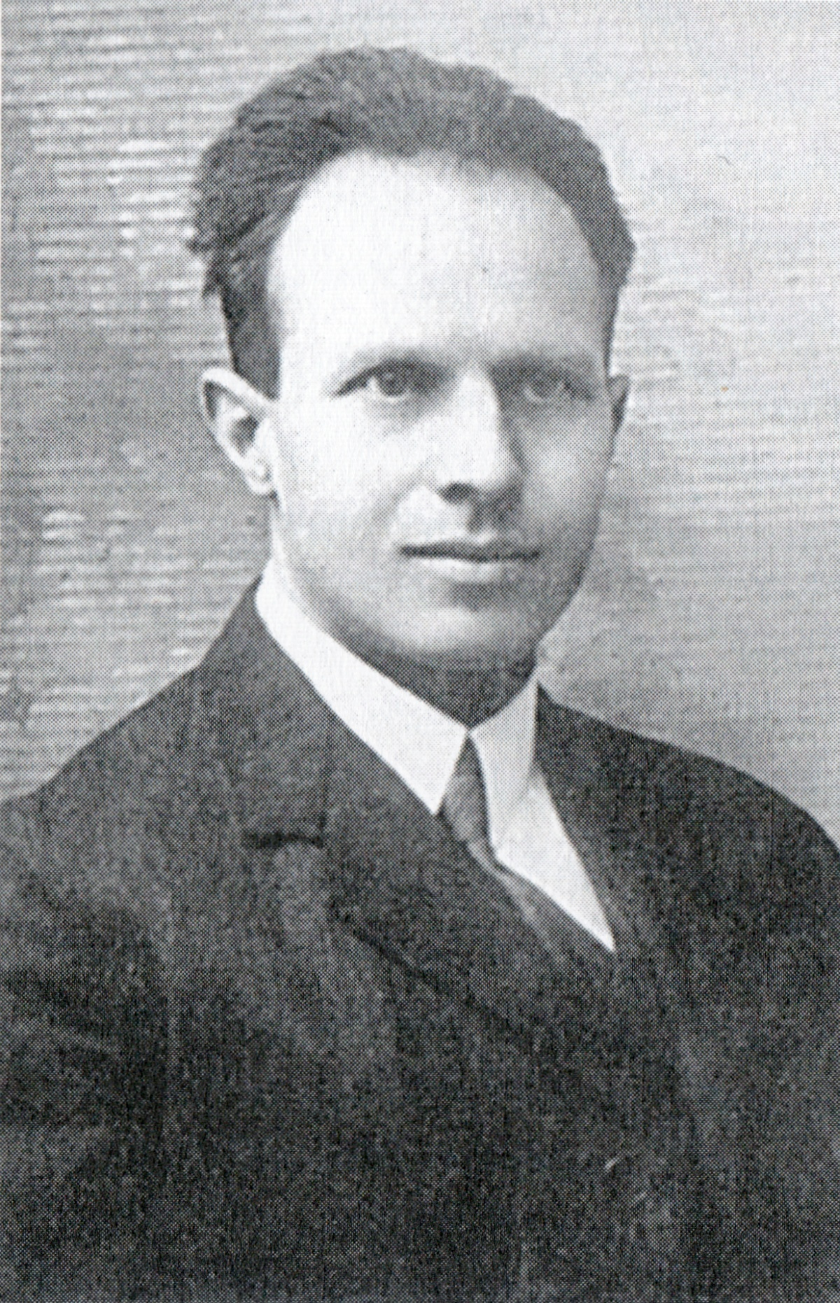 Antonín Pešl (* 1891 – † 1942) was a Czech journalist and columnist. During the First World War he was one of the founders of the Czechoslovak legions in Italy. At the beginning of the Nazi occupation he was one of the main organizers of the domestic anti-german resistance. Pešl cooperated with the illegal Political Headquarters (PÚ) and with the military defense of the Nation (ON). Besides Vaclav König was Pešl described as a close associate (from journalistic circles) of Lieutenant Colonel Josef Balában. Josef Balabán was one of the Three Kings (Balabán, Mašín. Morávek). In 1940 was Antonin Pešl involved as a founder and leading member of the resistance organization ÚVOD. For his actions against Nazi Germany Pešl paid the highest price. (He was executed).